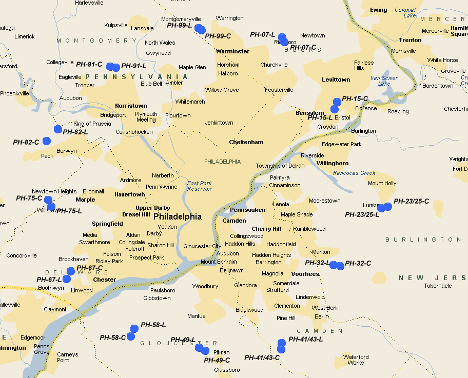 Philadelphia Defense Area Nike Missile Sites